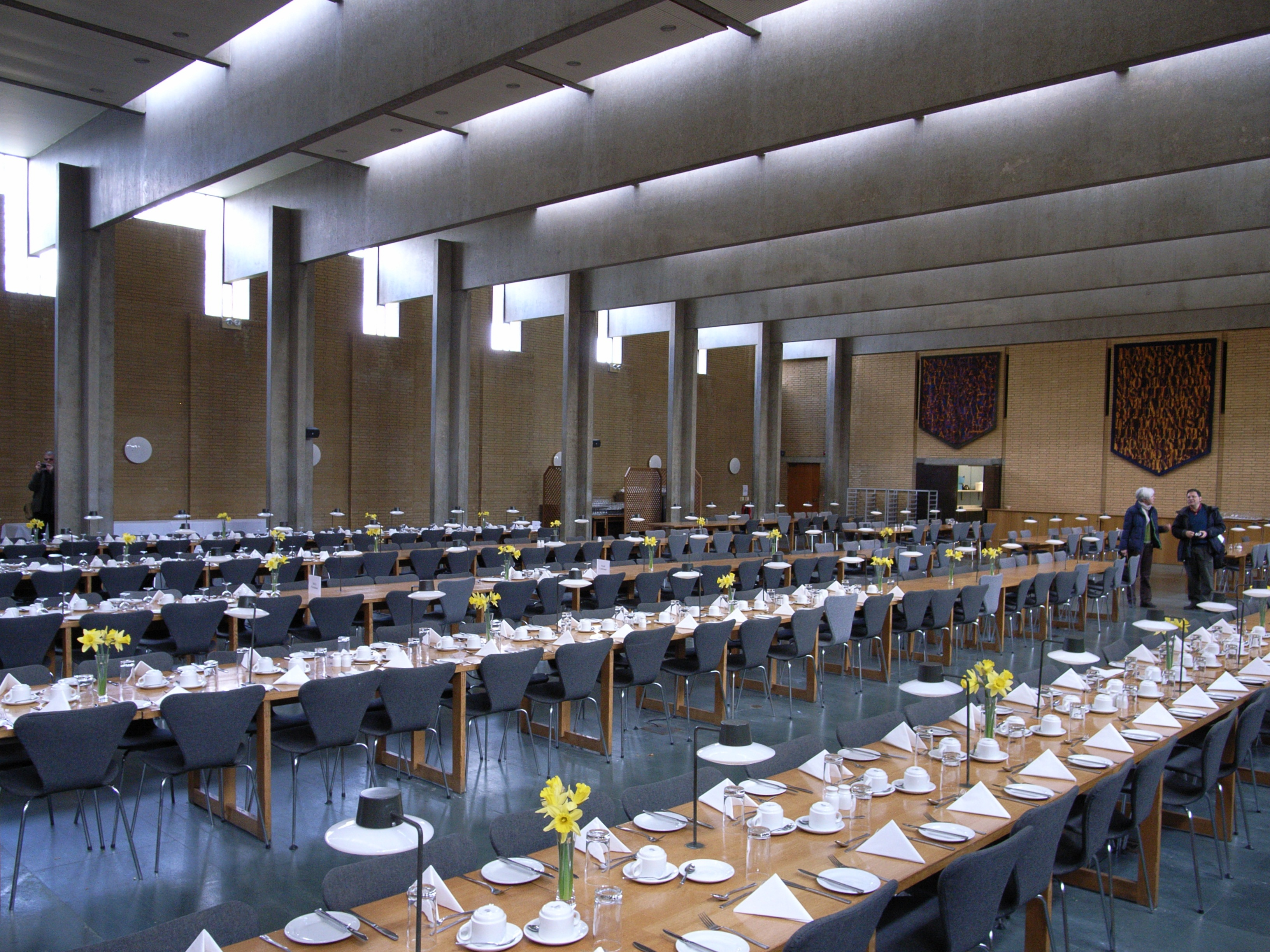 St Catherine's College, Oxford (1960-64) by Arne Jacobsen.